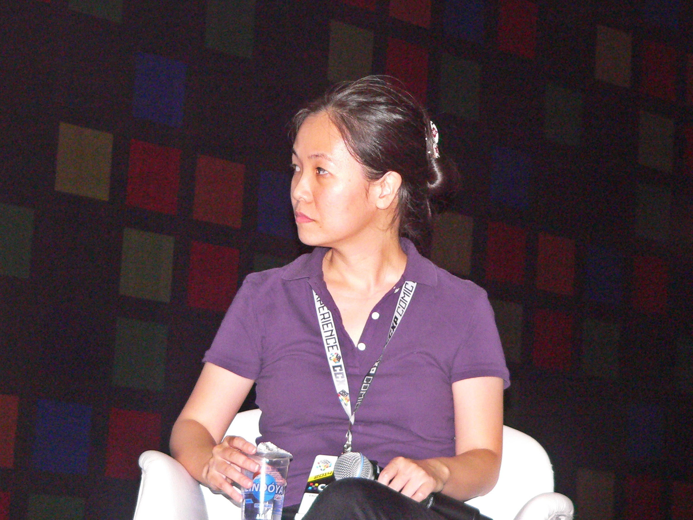 Brazilian illustrator Érica Awano at the 2014 Comic Con Experience in São Paulo, Brasil